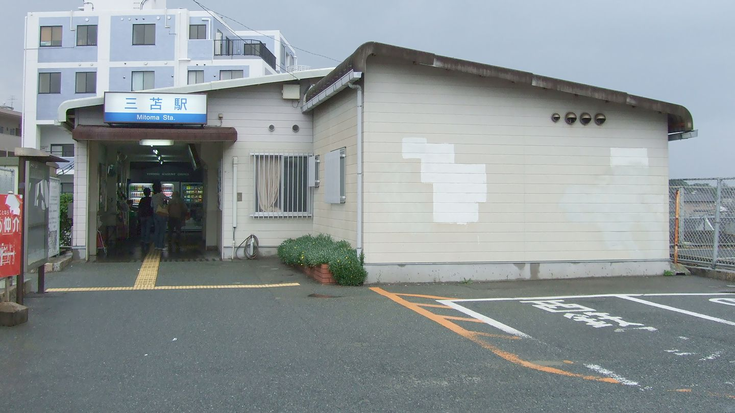 Mitoma Station, Nishitetsu Kaizuka Line